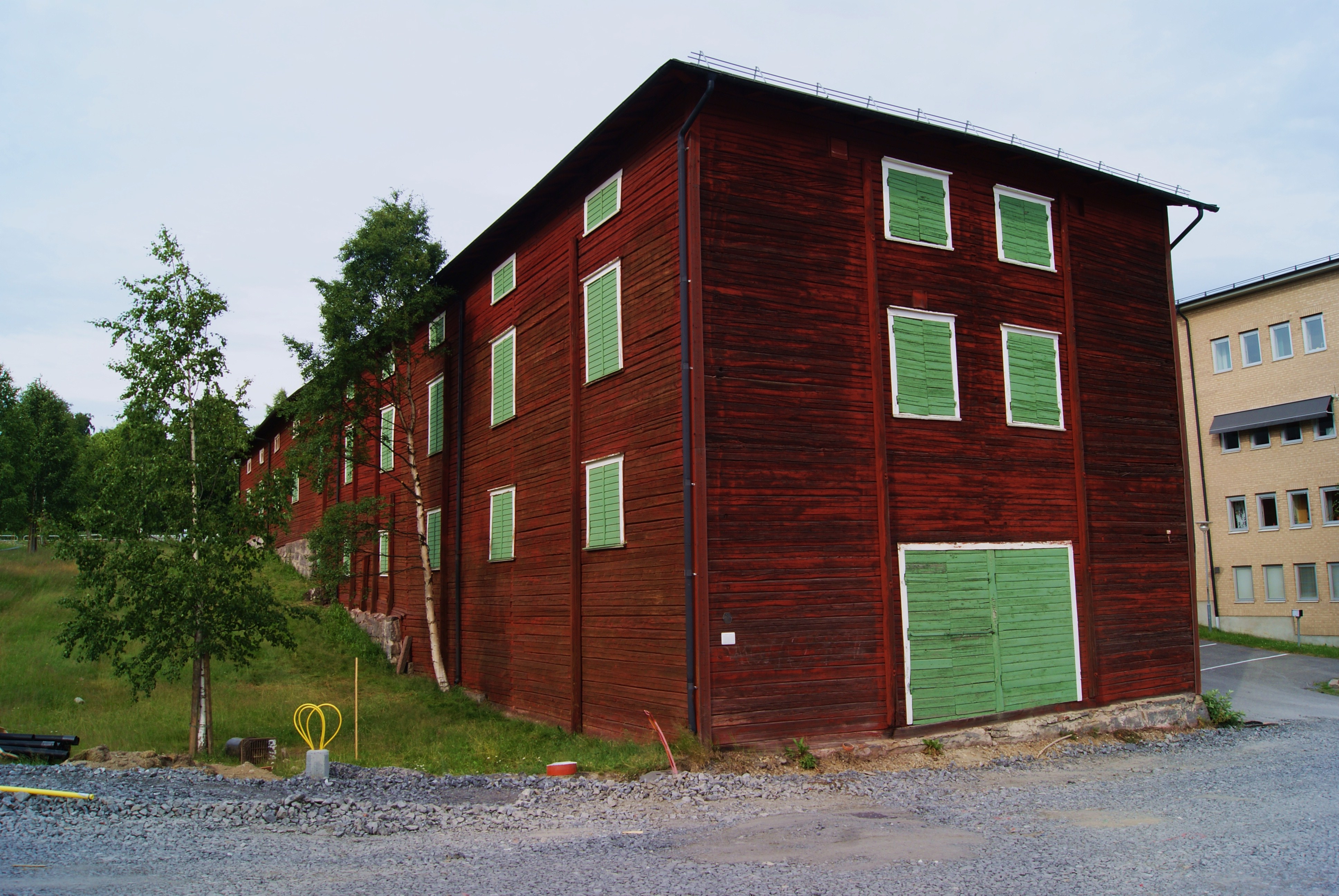 The short side of the building von Ahnska magasinet (towards the river).